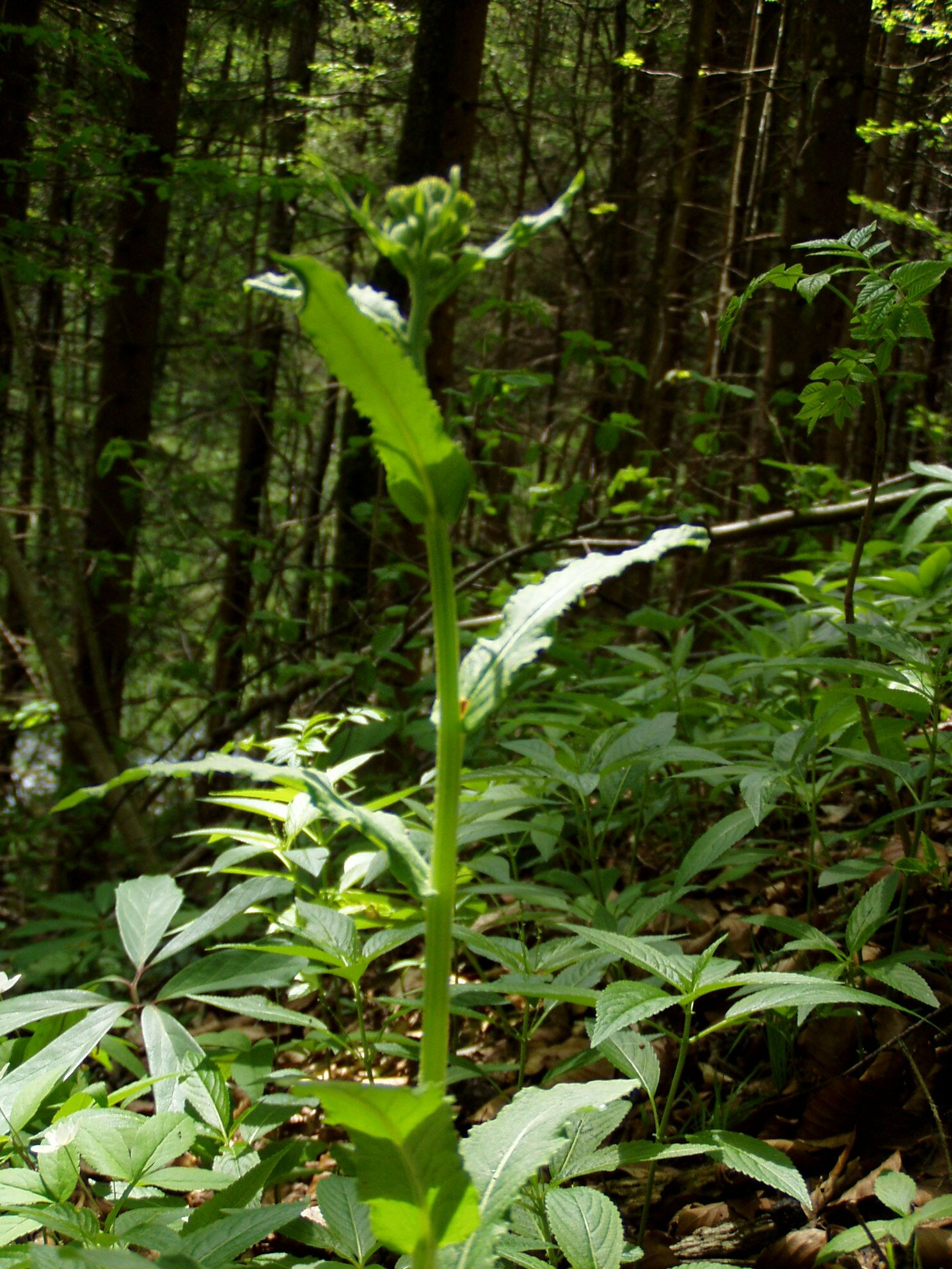 Tephroseris longifolia, Tscheppaschlucht, Karawanken, Carinthia, app 650 m